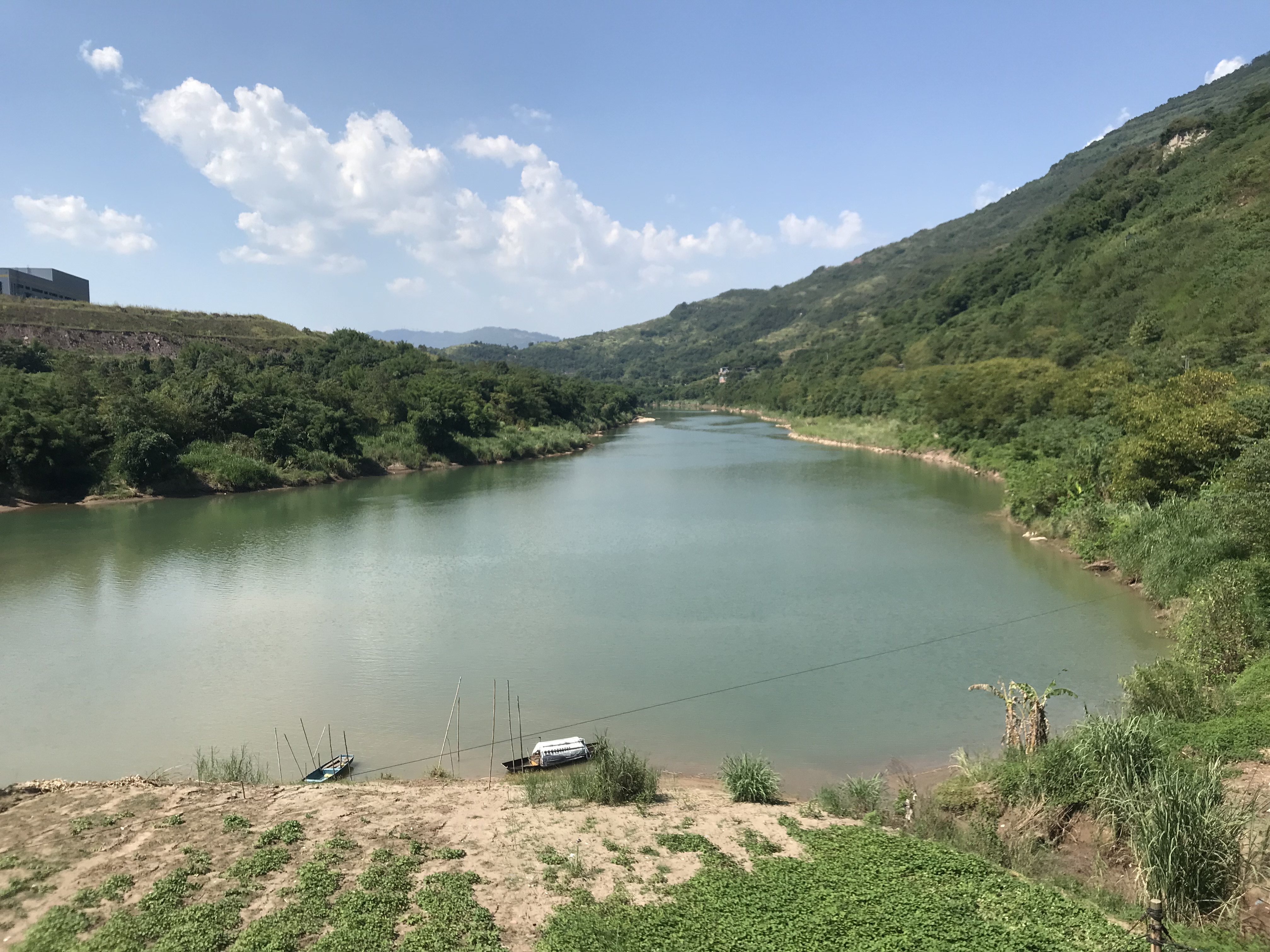 201908 River Qi near Zhuanguankou